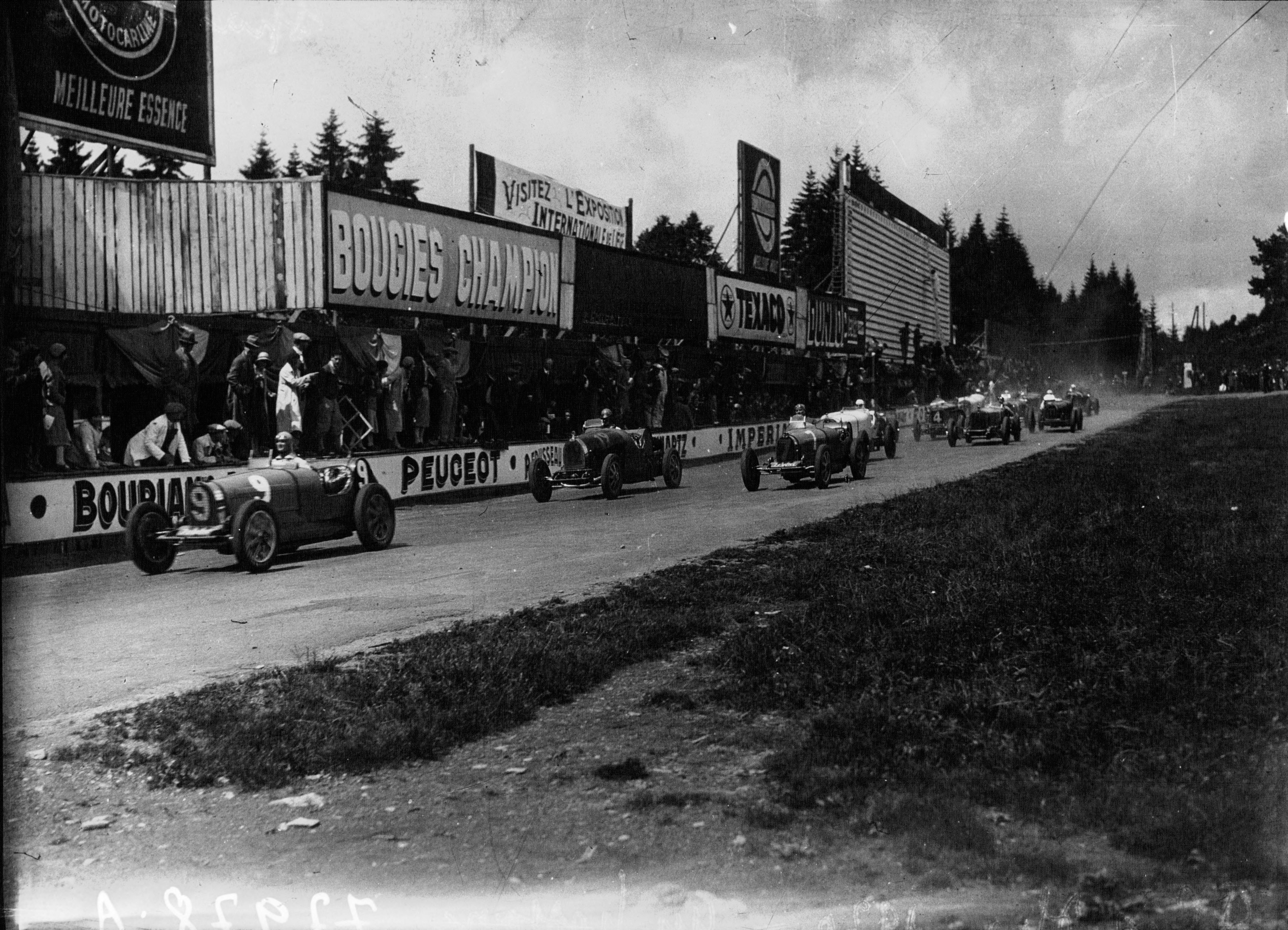 After the start at the 1930 Belgian Grand Prix